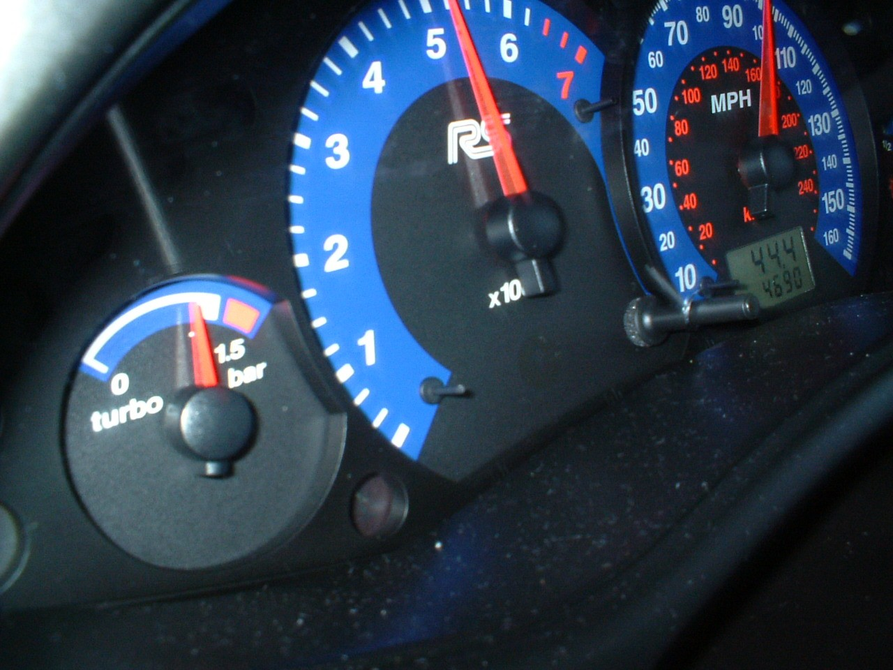 Turbo boost dial on Ford Focus RS